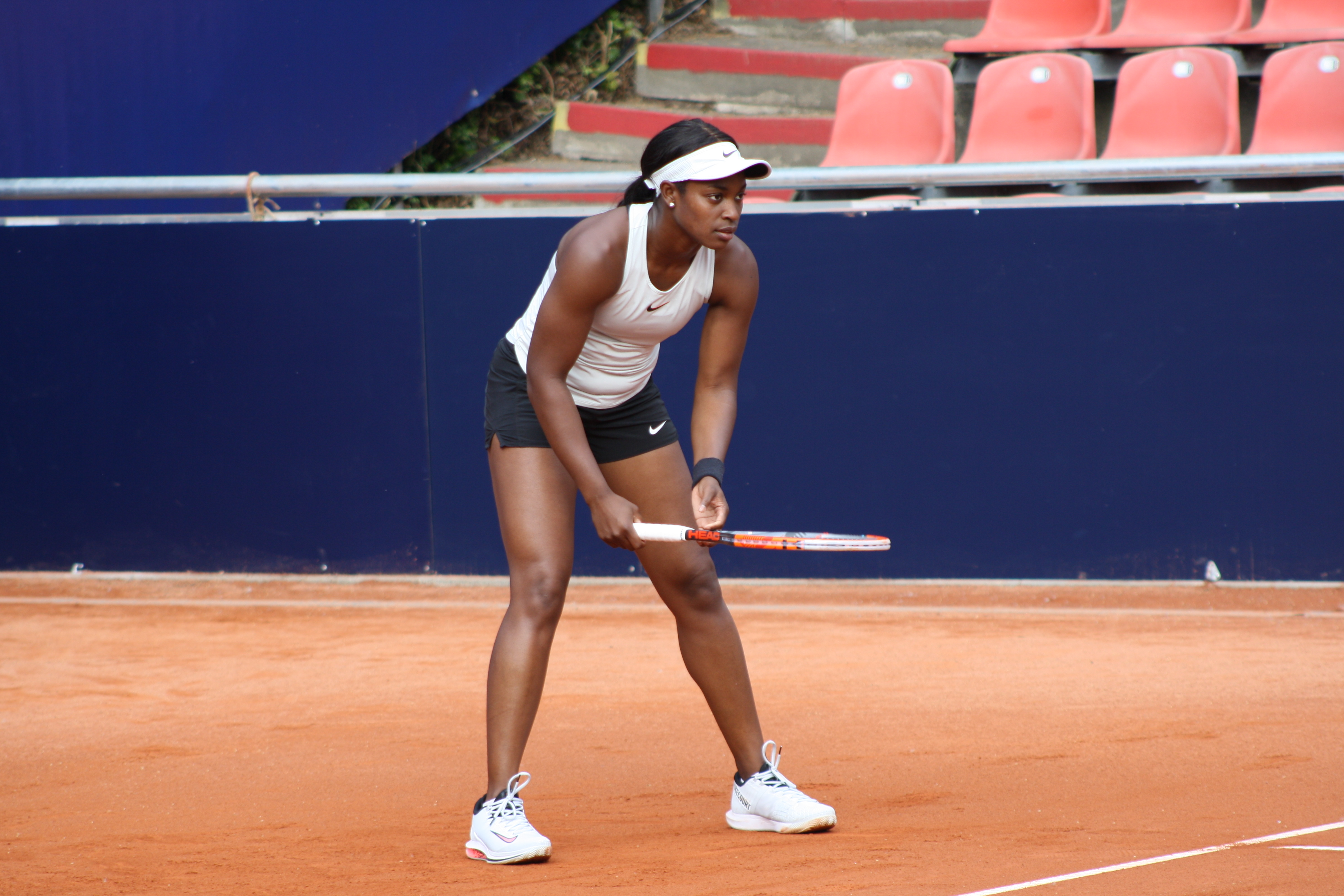 Sloane Stephens, May 2018